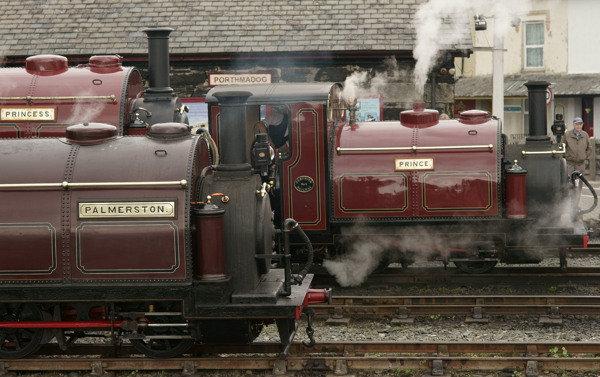 England line-up at Porthmadog.